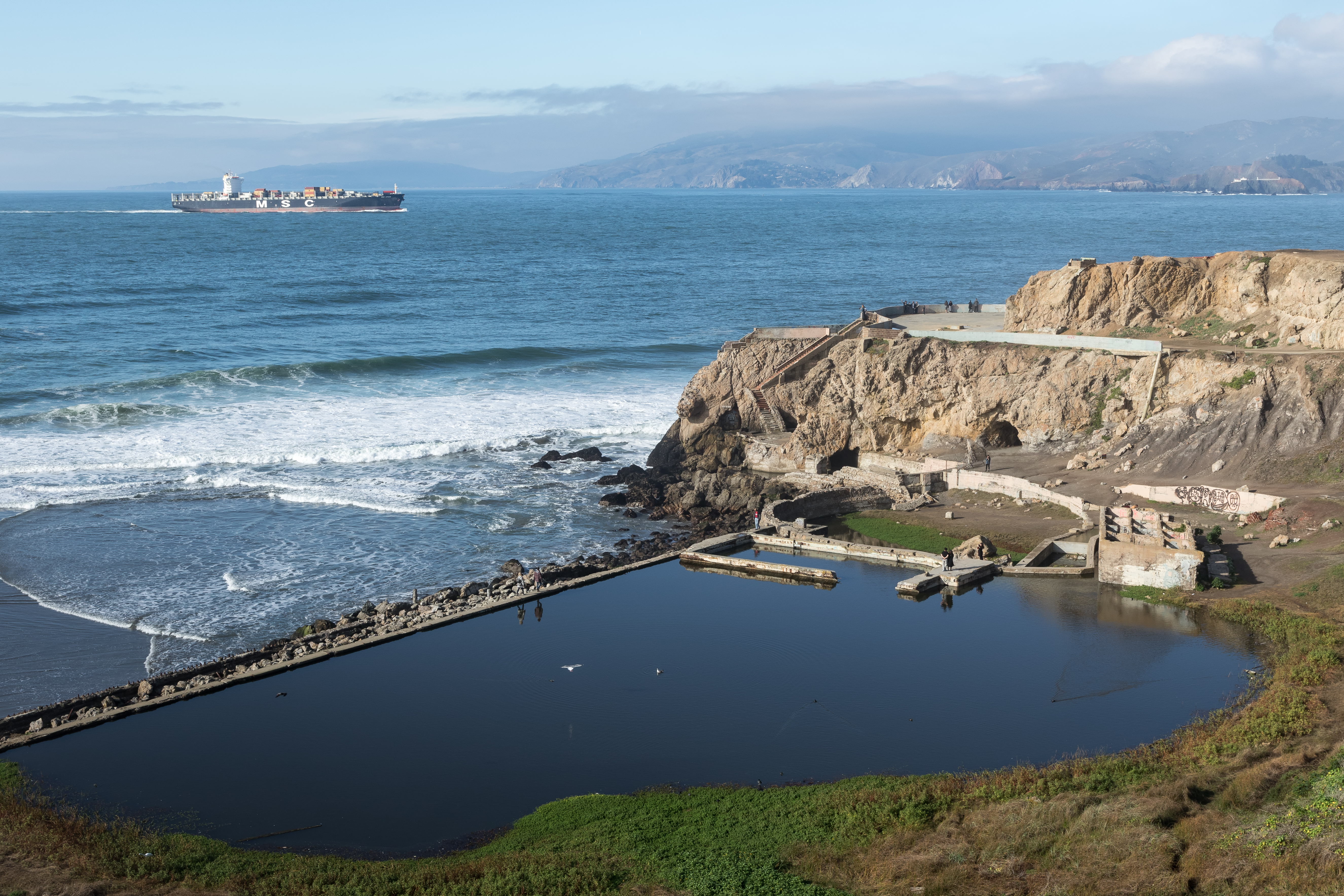 The Sutro Baths in the Outer Richmond District of San Francisco, California, in January 2018